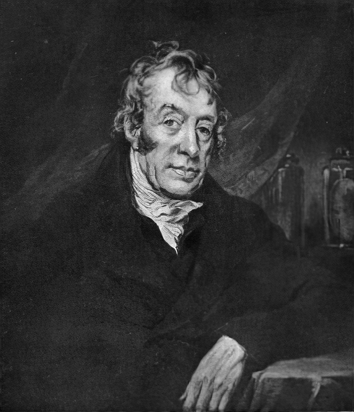 Picture of Charles White, the physician